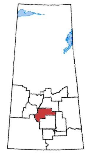 Map of the Blackstrap electoral district. Based on Earl Andrew's maps, created by SimonP.